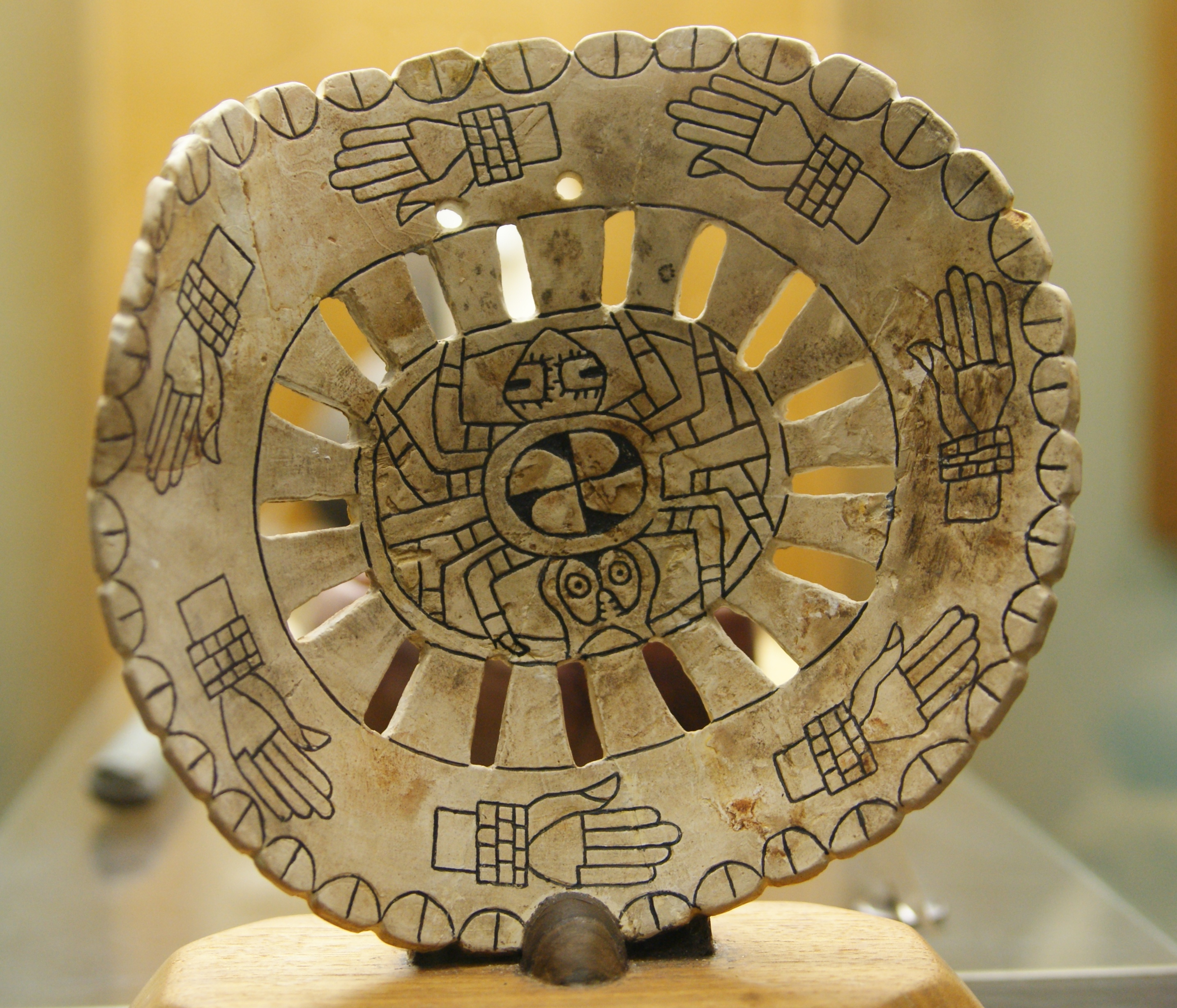 Spiro mound artifacts on display at Woolaroc Museum, near Bartlesville. Spider motif at center with circle of hands with shell bracelets. Roughly 3 in x 3 in.